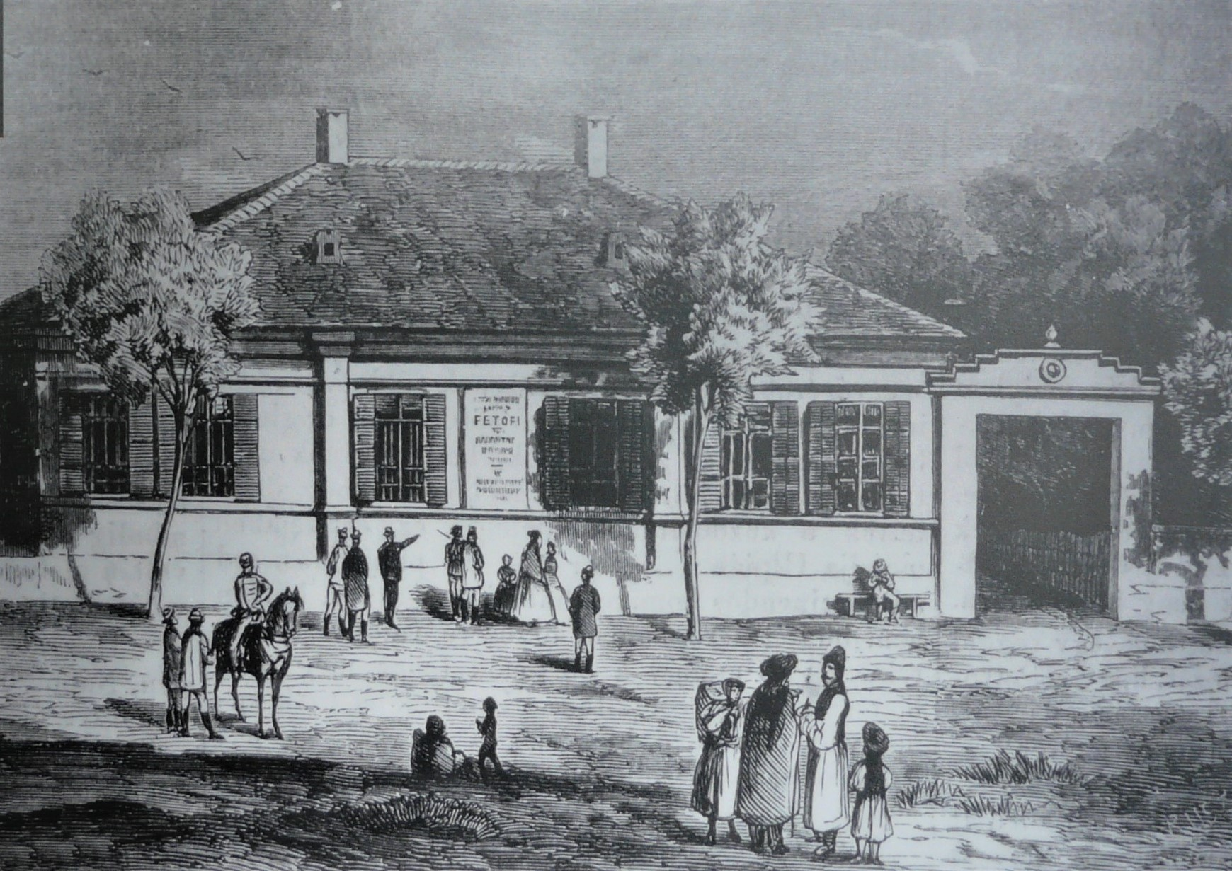 Drawing of the house in 1867